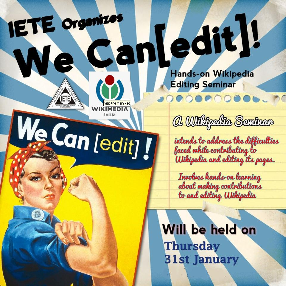 IETE (K.J.S.I.E.I.T.) organizes hands-on Wikipedia editing workshop on 31st January,2013.